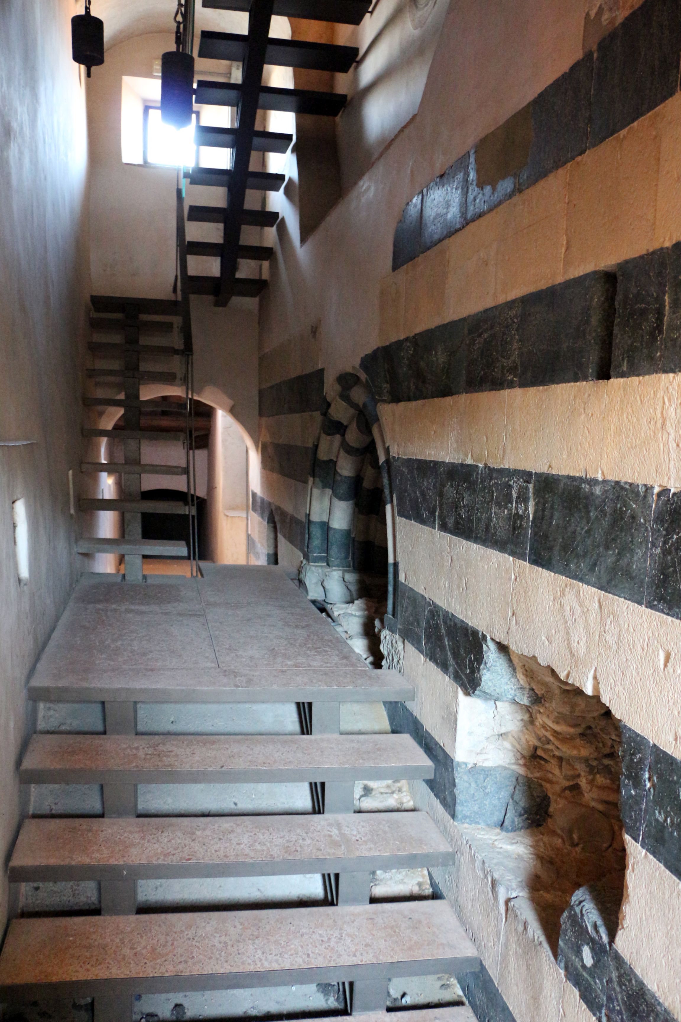 Duomo (Prato)